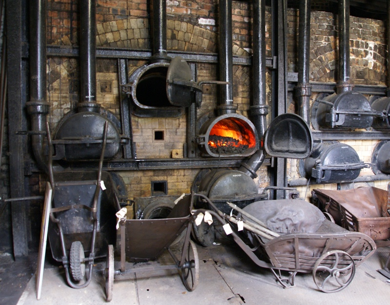 Biggar Gasworks Museum, South Lanarkshire, Scotland - retort